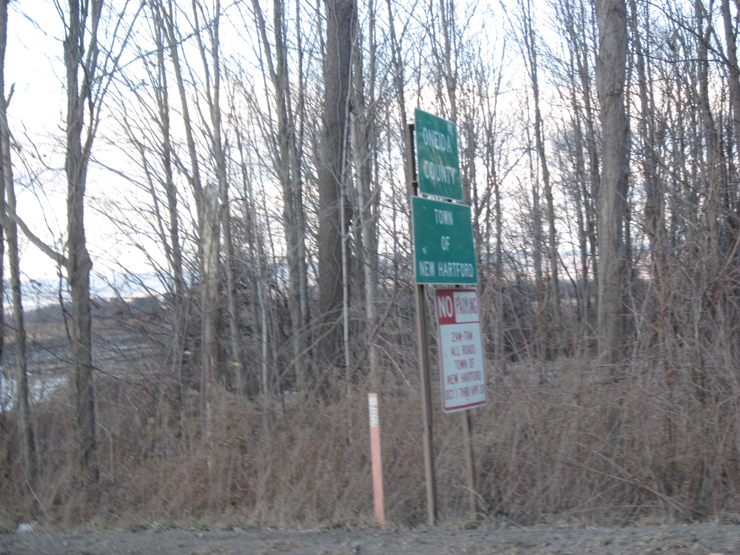 A sign along Oneida County Route 24A displaying entrance into the town of New Hartford, New York.